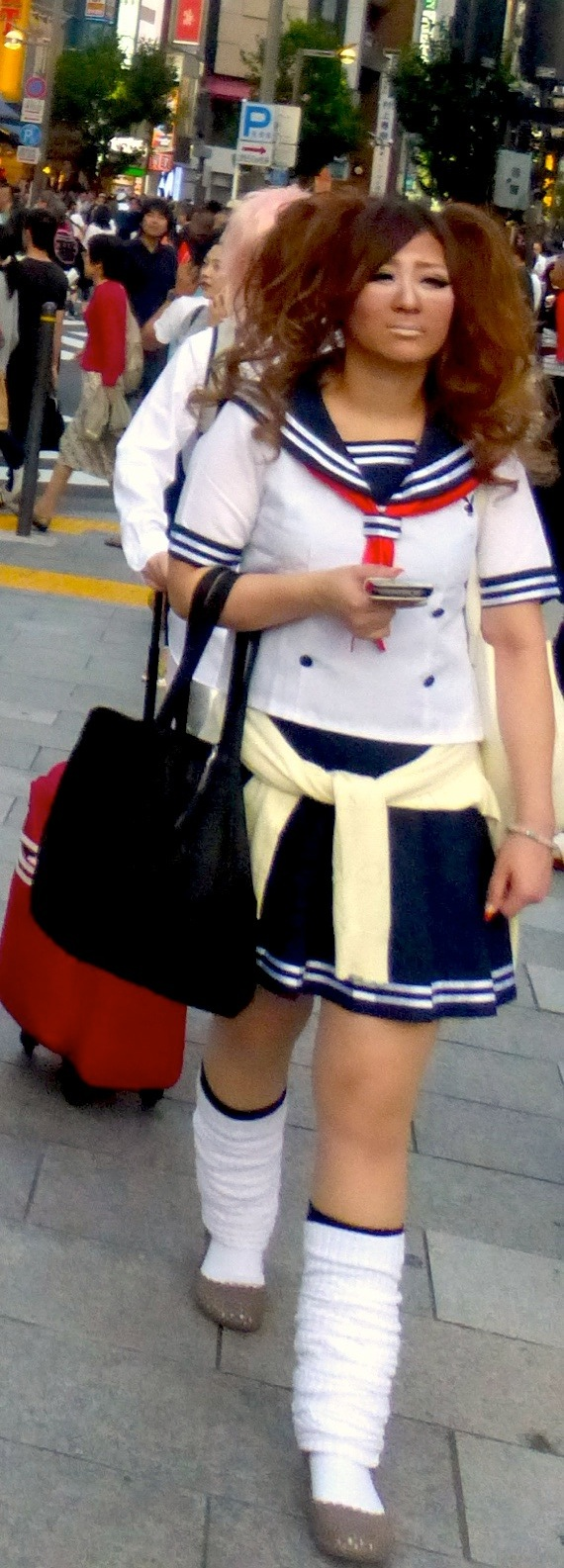 Been a long time since I've seen someone in "gangro" (ガングロ) style, this is possibly maybe cosplay? Or just someone who enjoys old style fashions? Or it's coming back in fashion? Seen in Shinjuku, near east exit.